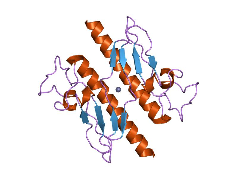 Cartoon representation of the molecular structure of protein registered with 1t92 code.